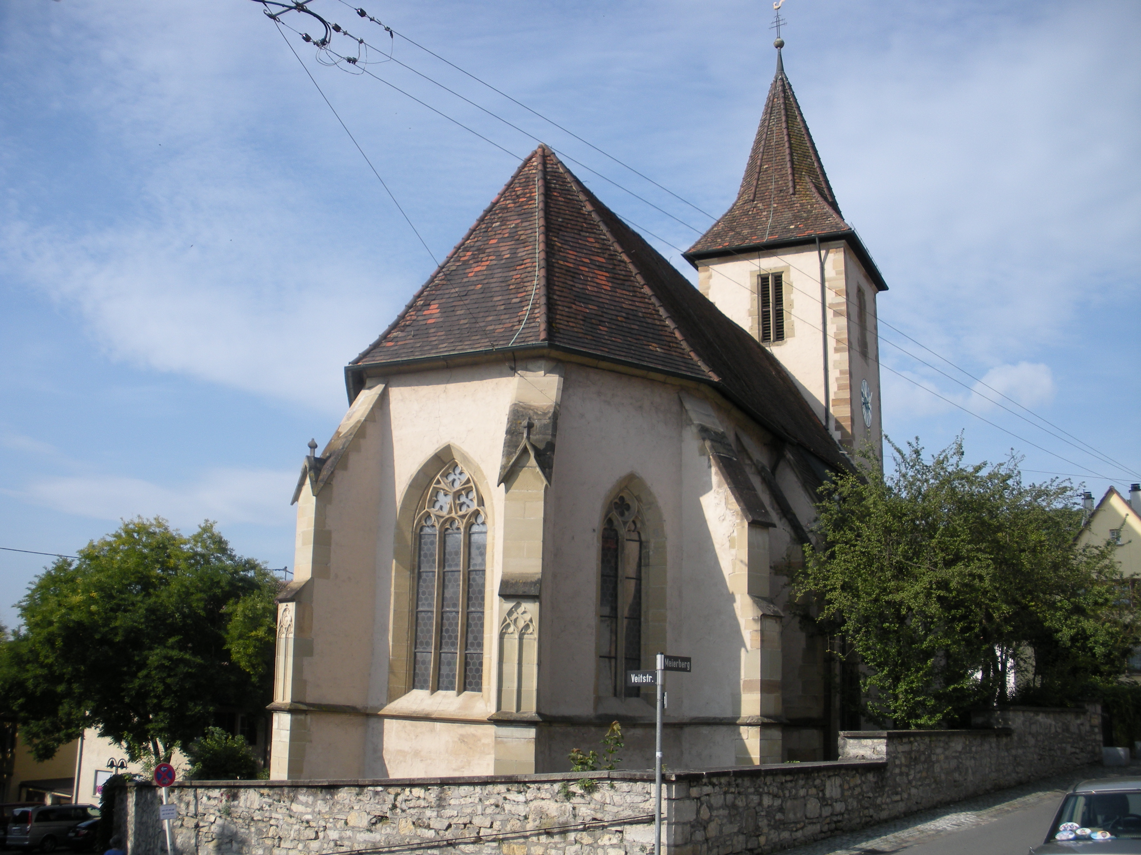 Protestant Church of St. Veit in Stuttgart-Mühlhausen